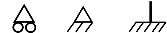 Symbols for three construction support methods: roller, hinged, and fixed.